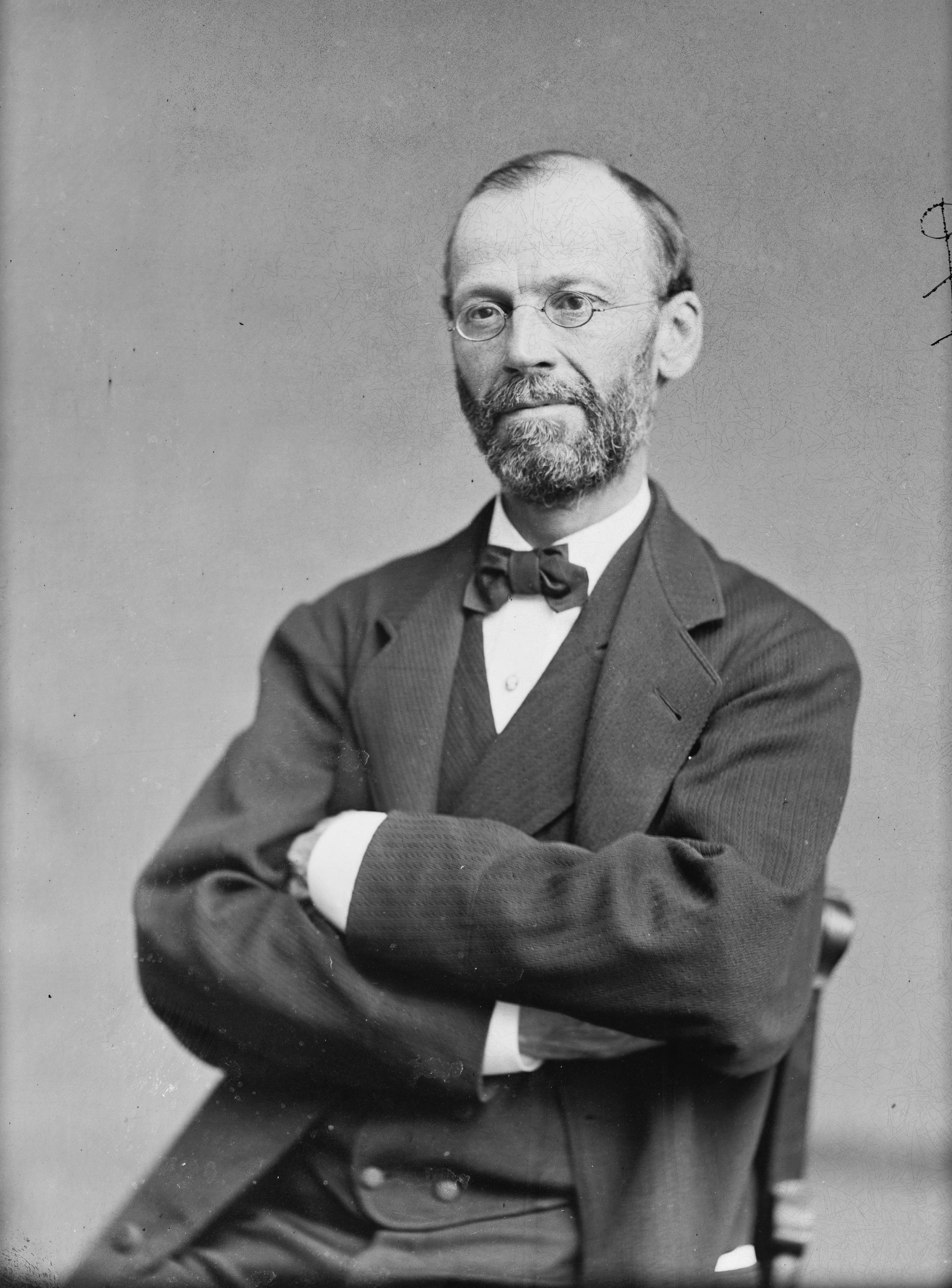 Smith Ely, Jr.. Library of Congress description: "Ely, Smith Jr. of NY (Mayor of N.Y.C.)"